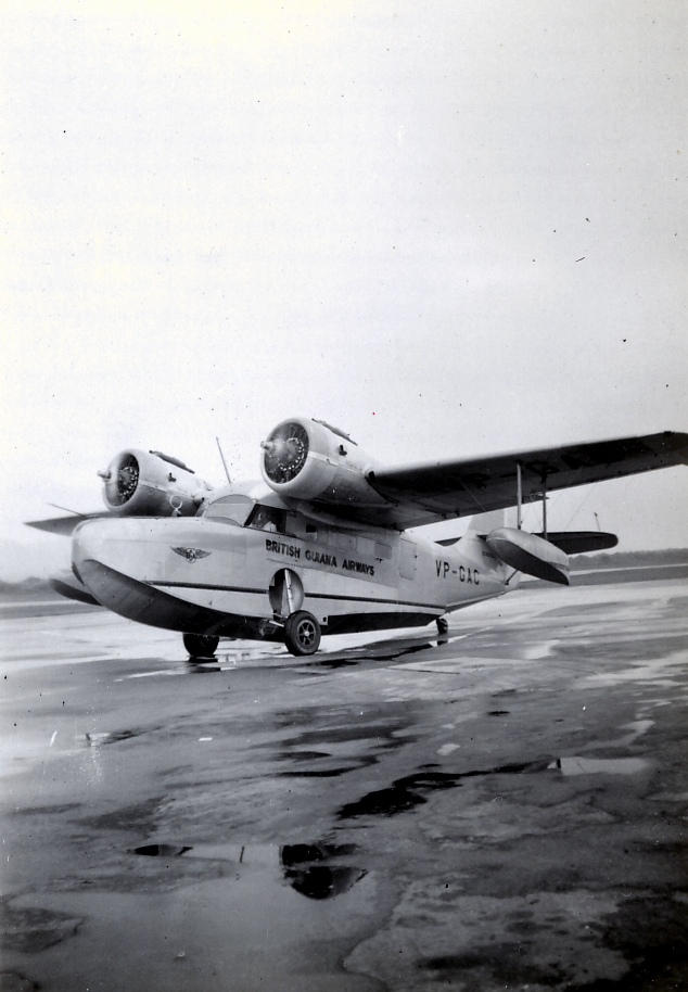 British Guiana Airways Grumman Goose. Piarco Airport, Trinidad.